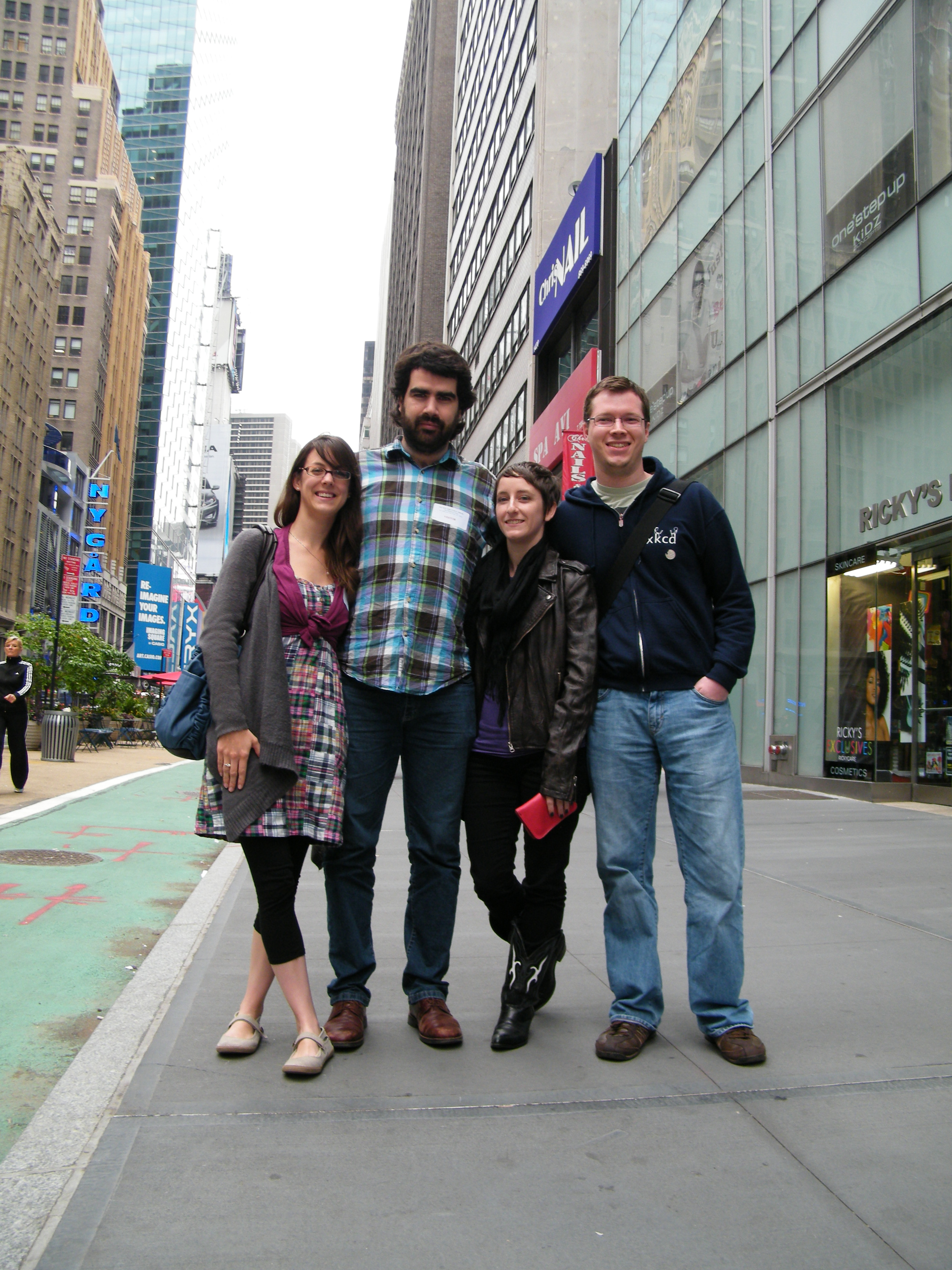 Wikipedians-in-Residence (L-R): Lori, Alex, Sarah & Dominic at Broadway and 39th St.